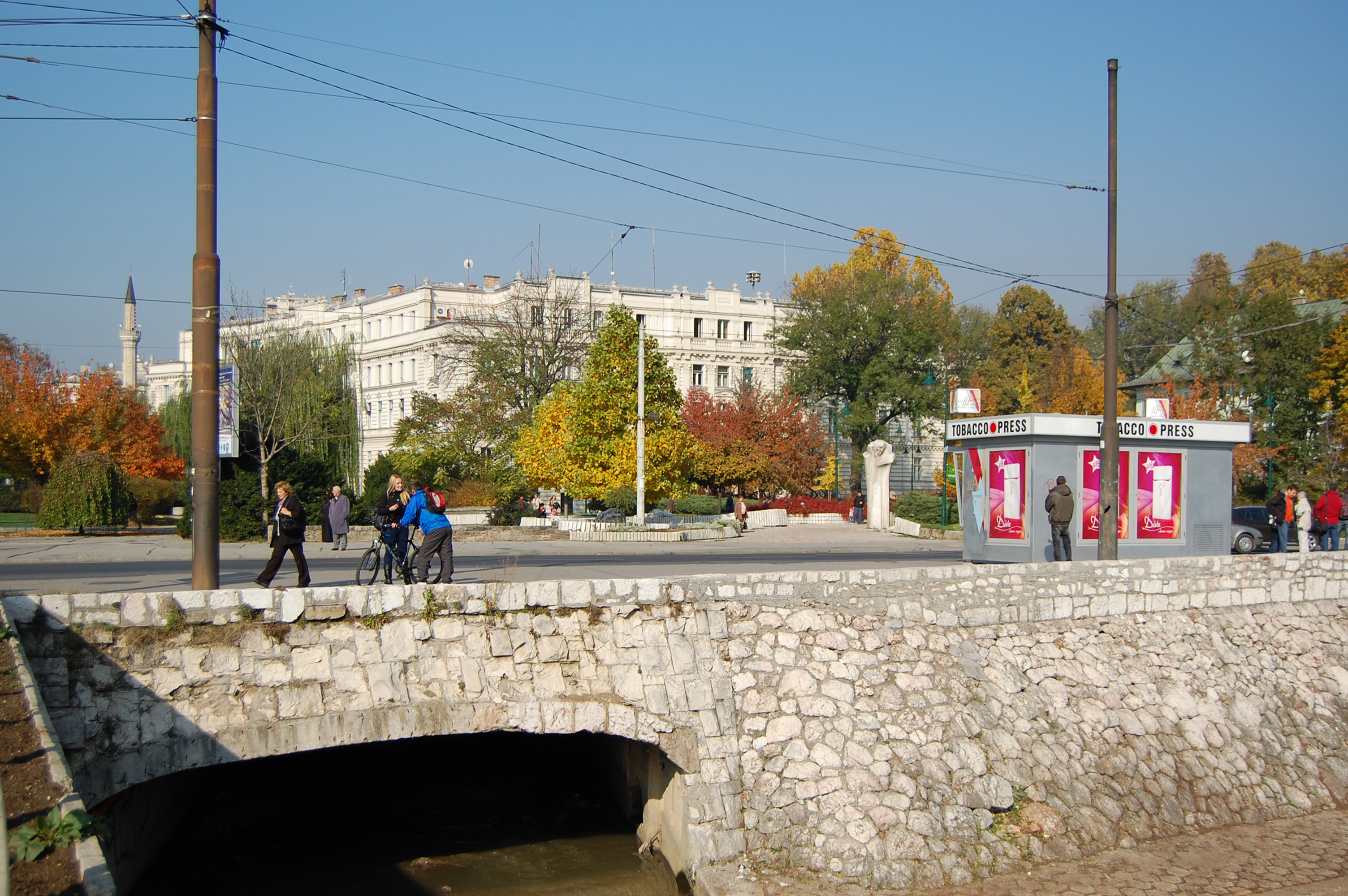 Square of the First Corpus of the Army of Bosnia and Herzegovina